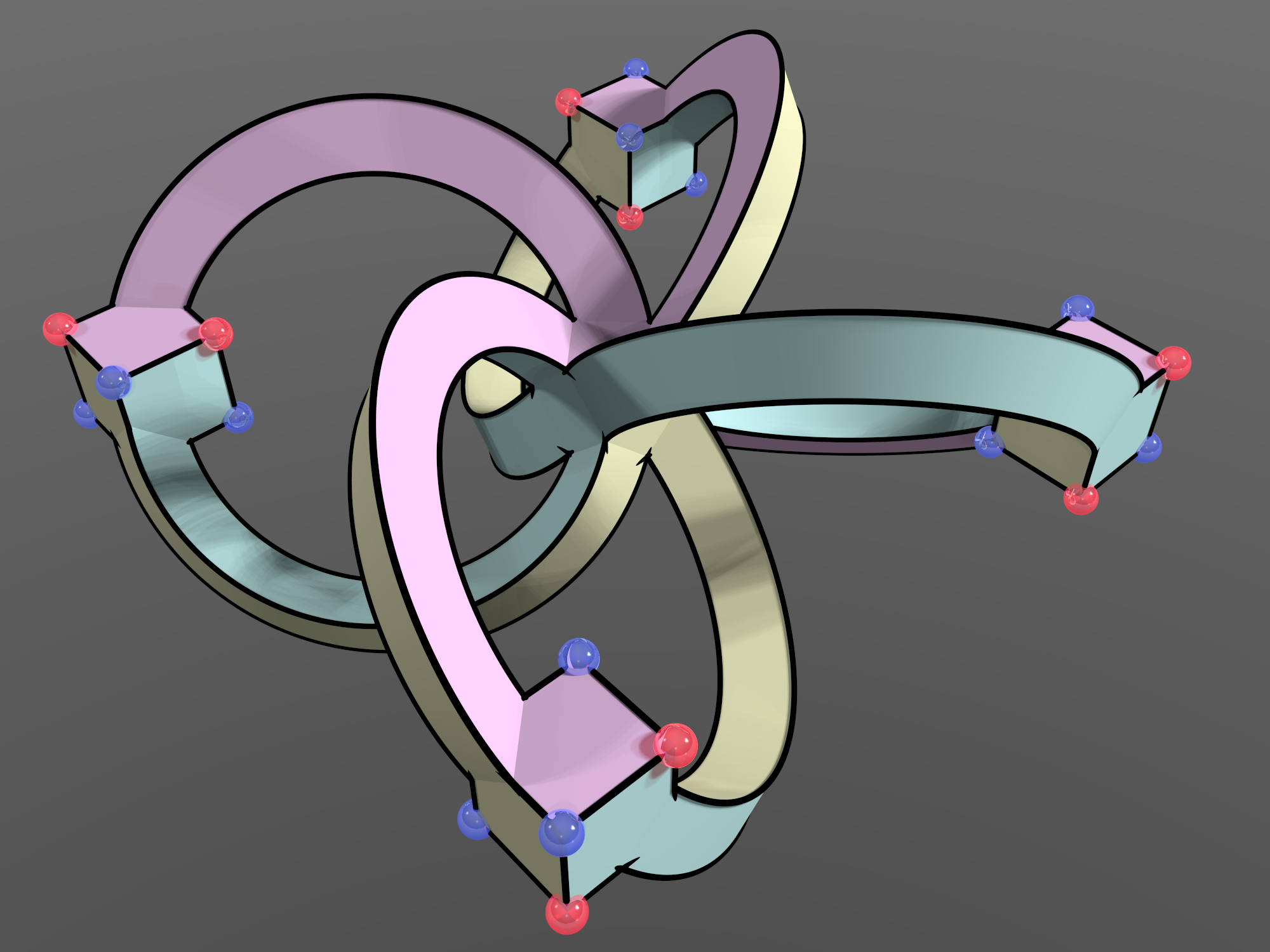 A symmetric genus-4 embedding of the Nauru graph, as rendered in povray. for source code for the rendering.